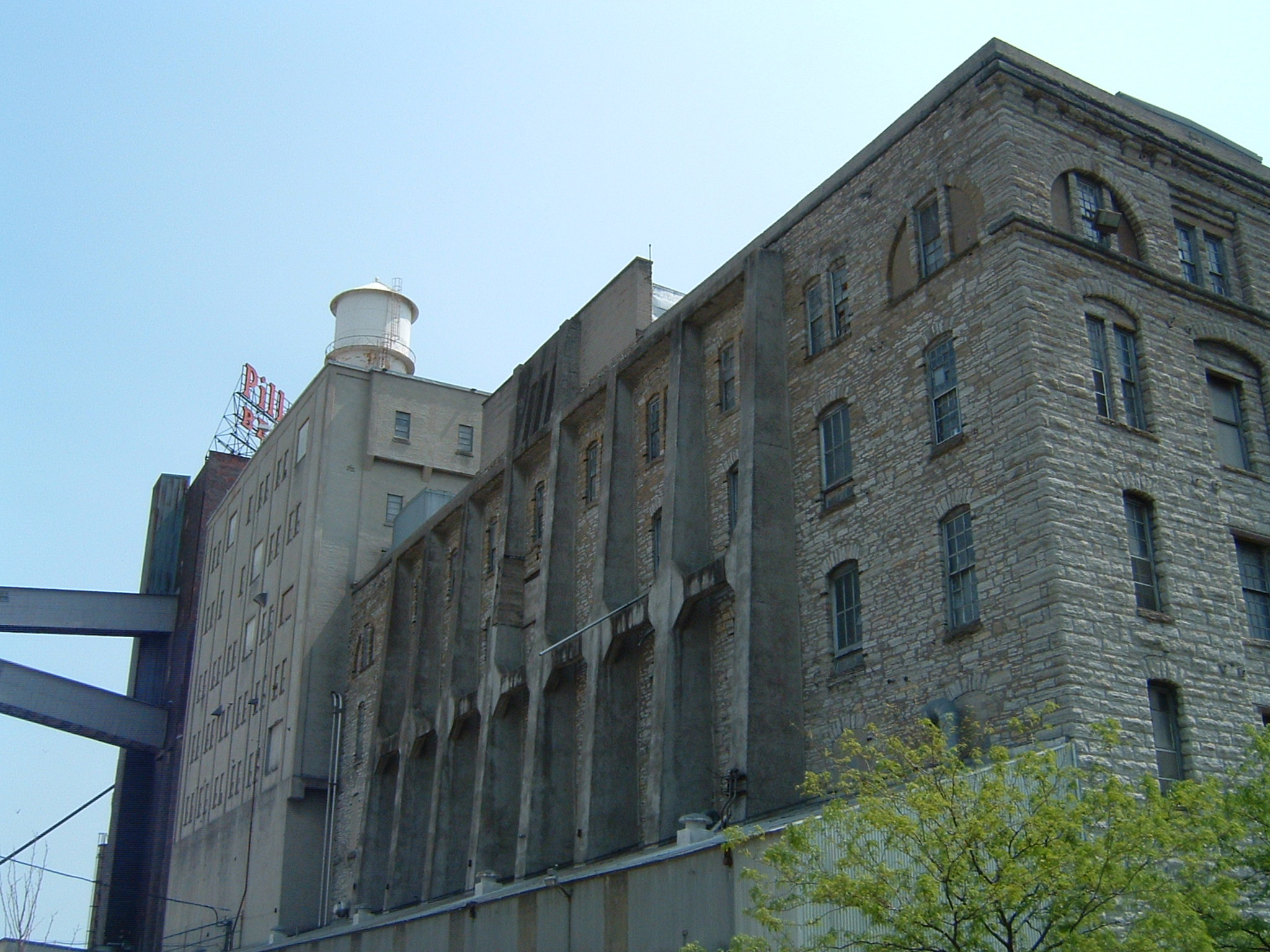 The old Pillsbury "A" Mill in Minneapolis is falling in on itself. On the back side, there are big concrete ribs to keep it standing. The first time I saw it, I was reminded of the cocoon put around the Chernobyl reactor...